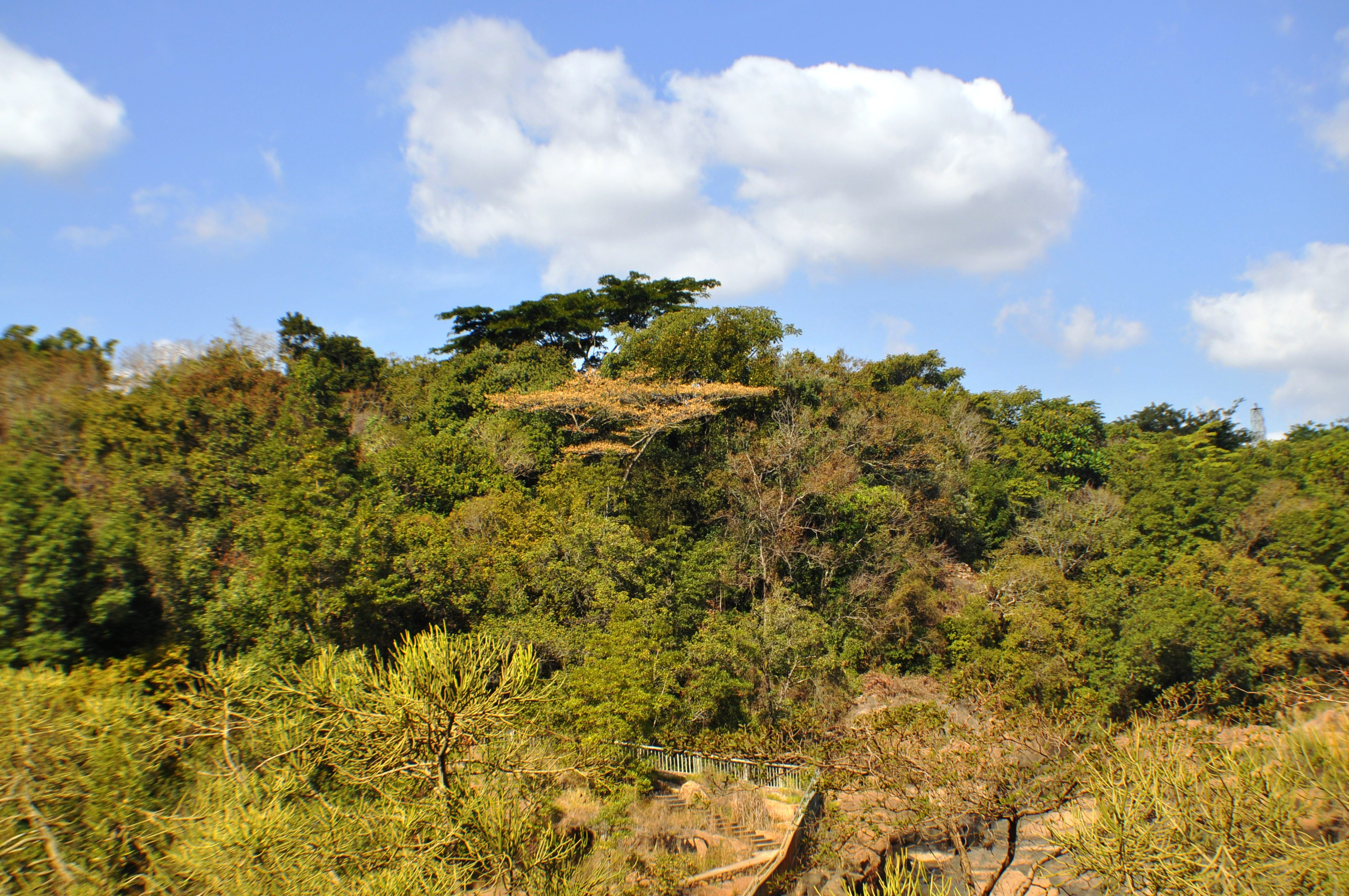 Natural vegetation flanking a walkway and the Crocodile river in the Lowveld National Botanical Garden in Nelspruit, Mpumalanga, South Africa